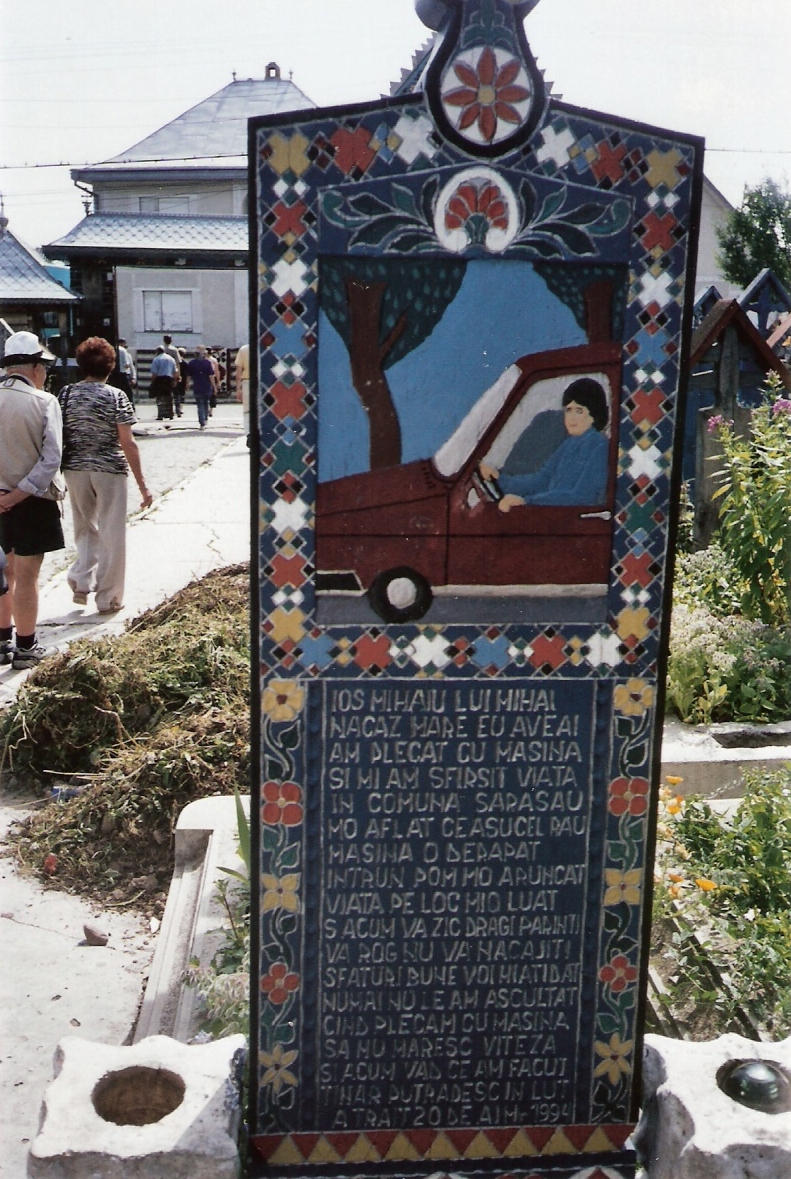 merry cemetery, romania